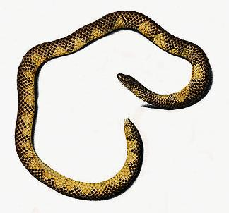 Plectrurus guentheri